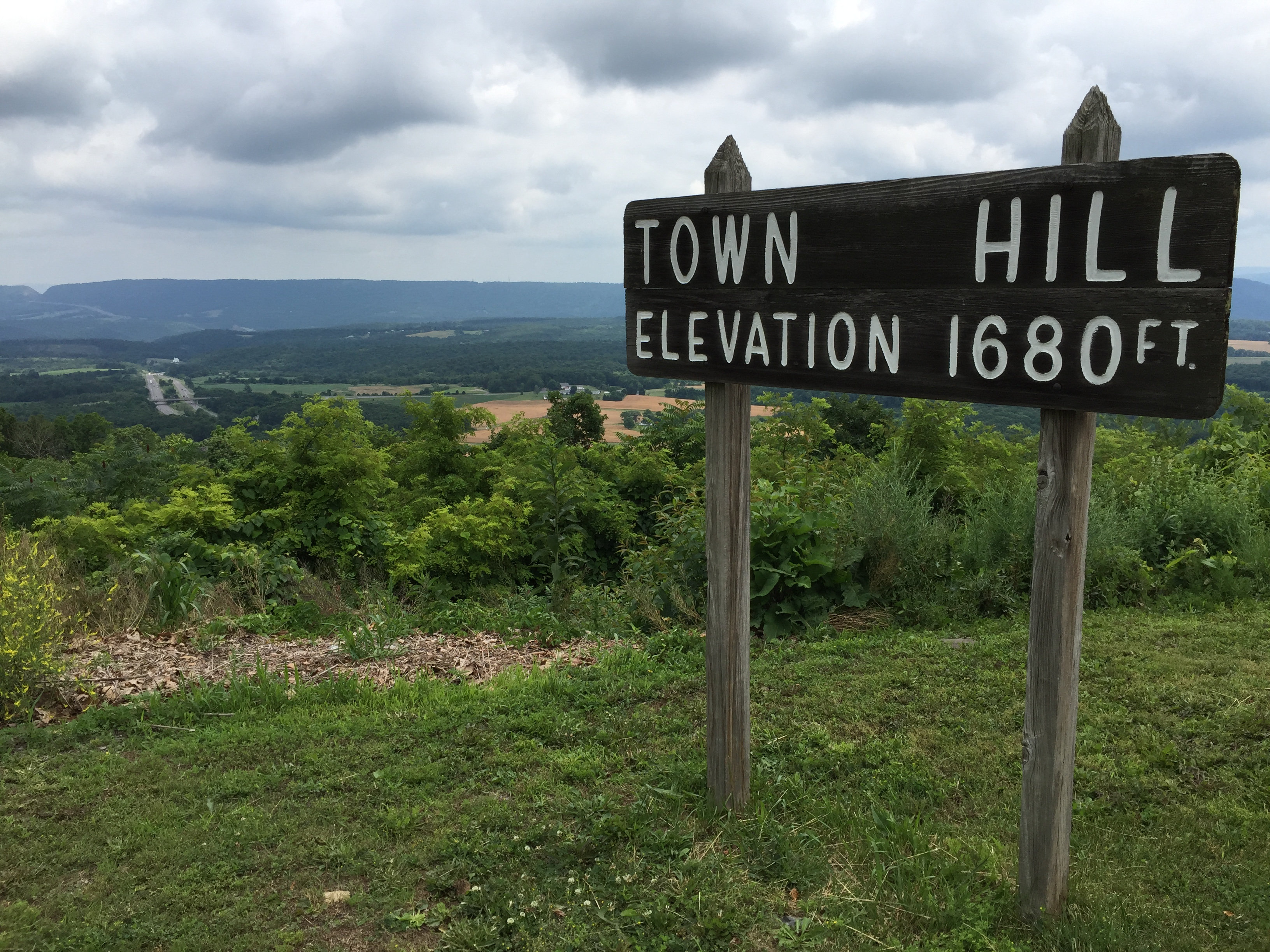 View of the entrance sign and beyond towards Interstate 68 and U.S. Route 40 (National Freeway) at the Town Hill Overlook on Town Hill in eastern Allegany County, Maryland